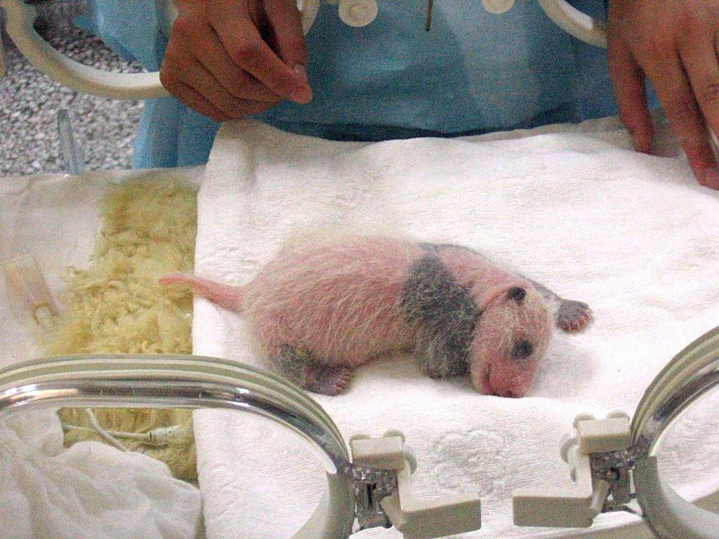 Giant Panda (Ailuropoda melanoleuca "black-and-white cat-foot") about one week old at Chengdu's Giant Panda Breeding Research Base. The giant Panda is only 90-180 grams when they are born.